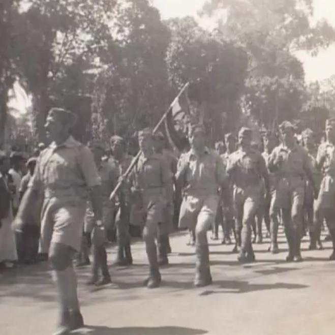 Soldiers of the Yugoslav exiled army marching in Cairo parade with Yugoslav war flag